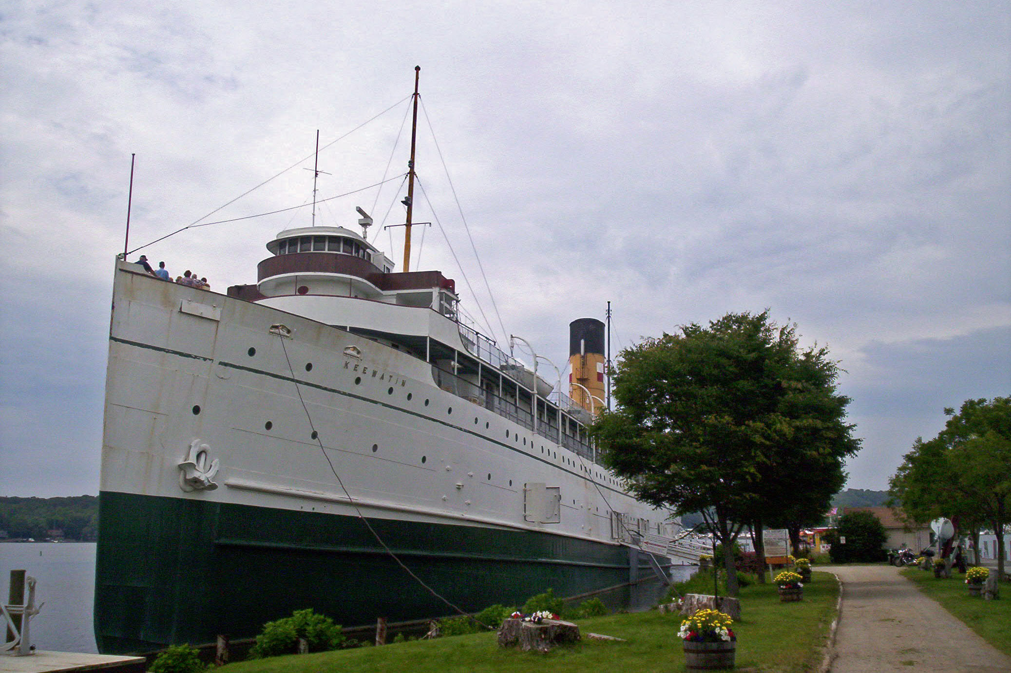 SS Keewatin